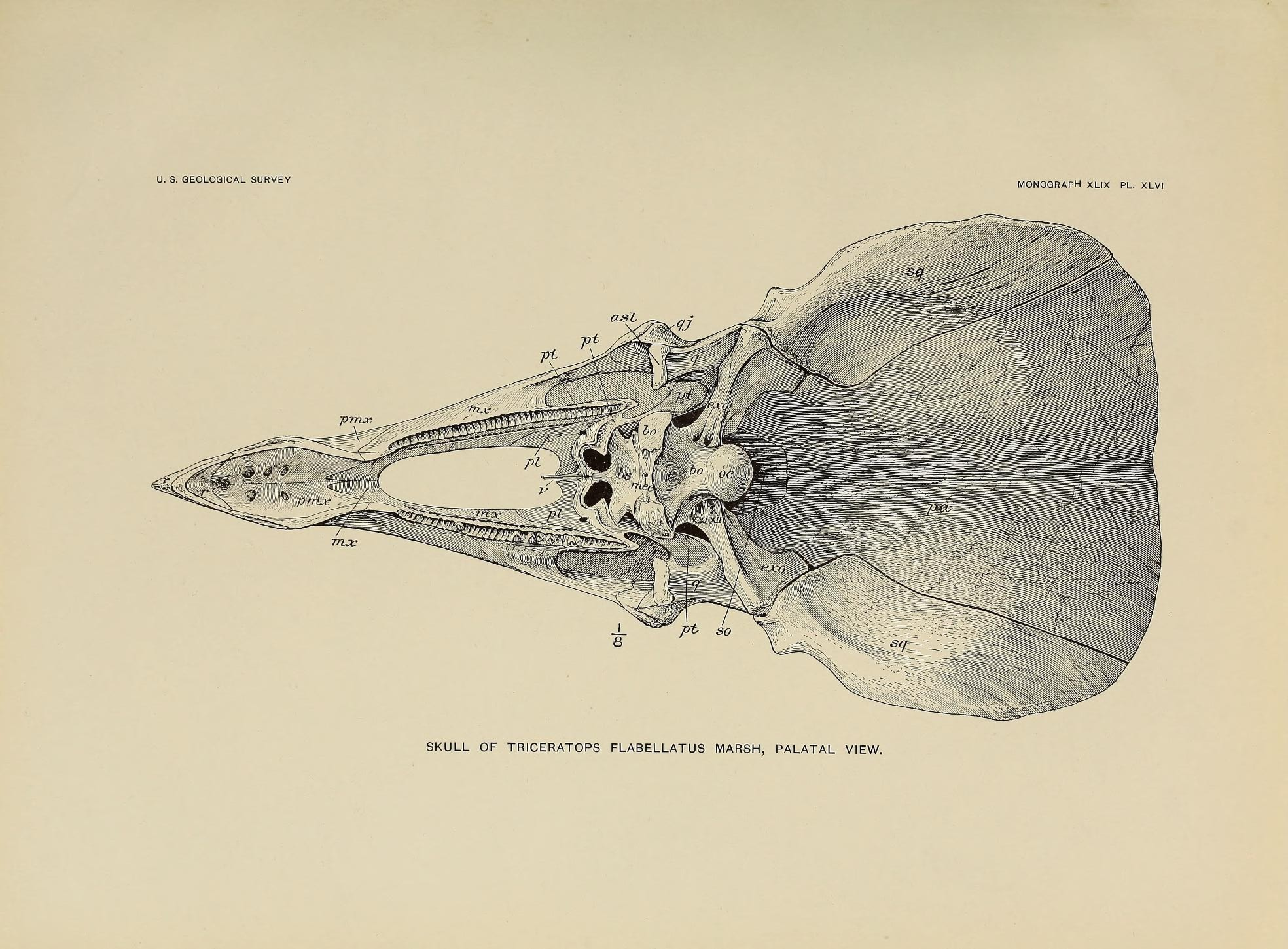 Skull of Triceratops flabellatus Marsh, palatal view.